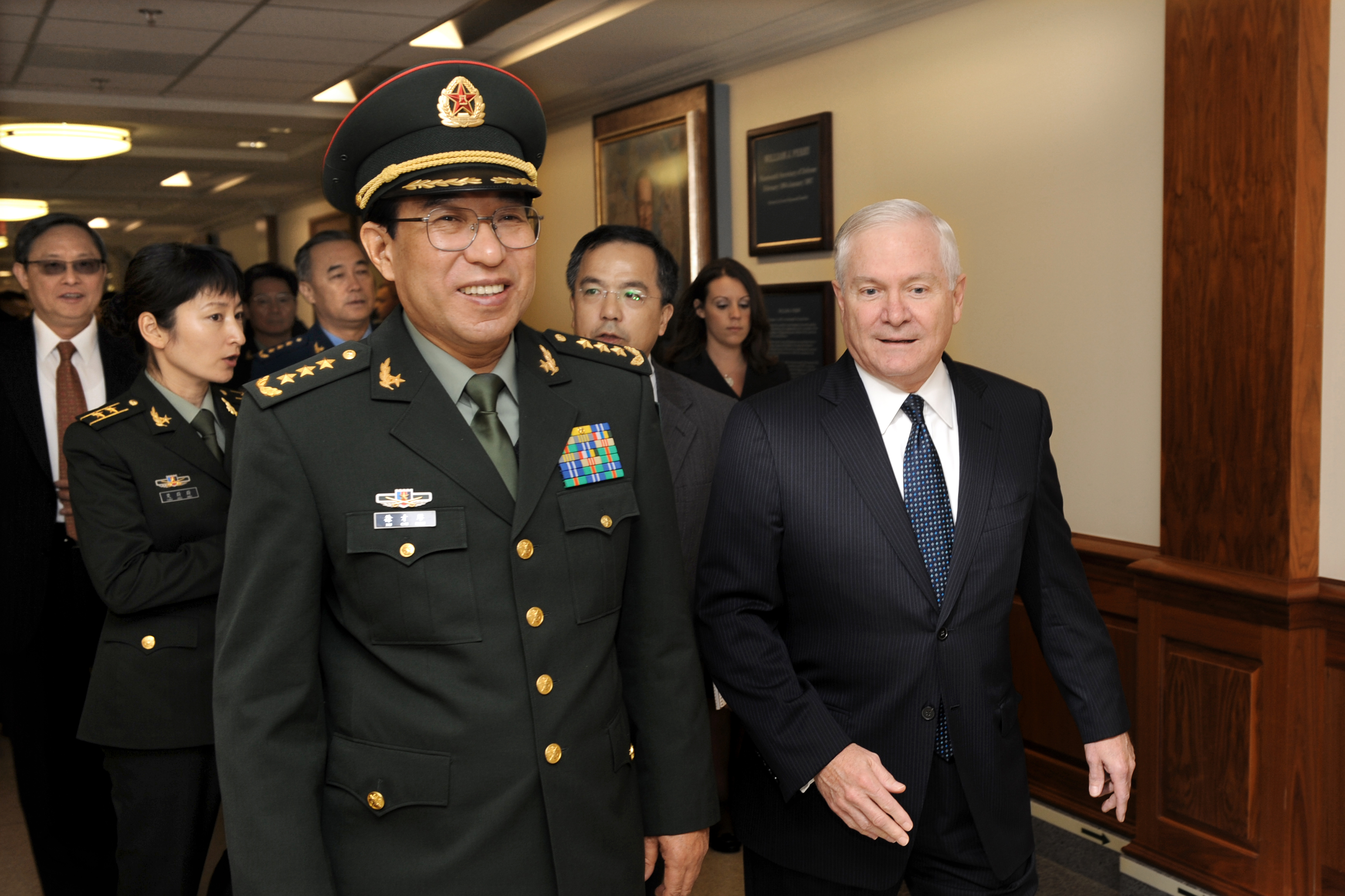 General Xu Caihou of the People's Liberation Army of China and U.S. Defense Secretary Robert Gates at the Pentagon.